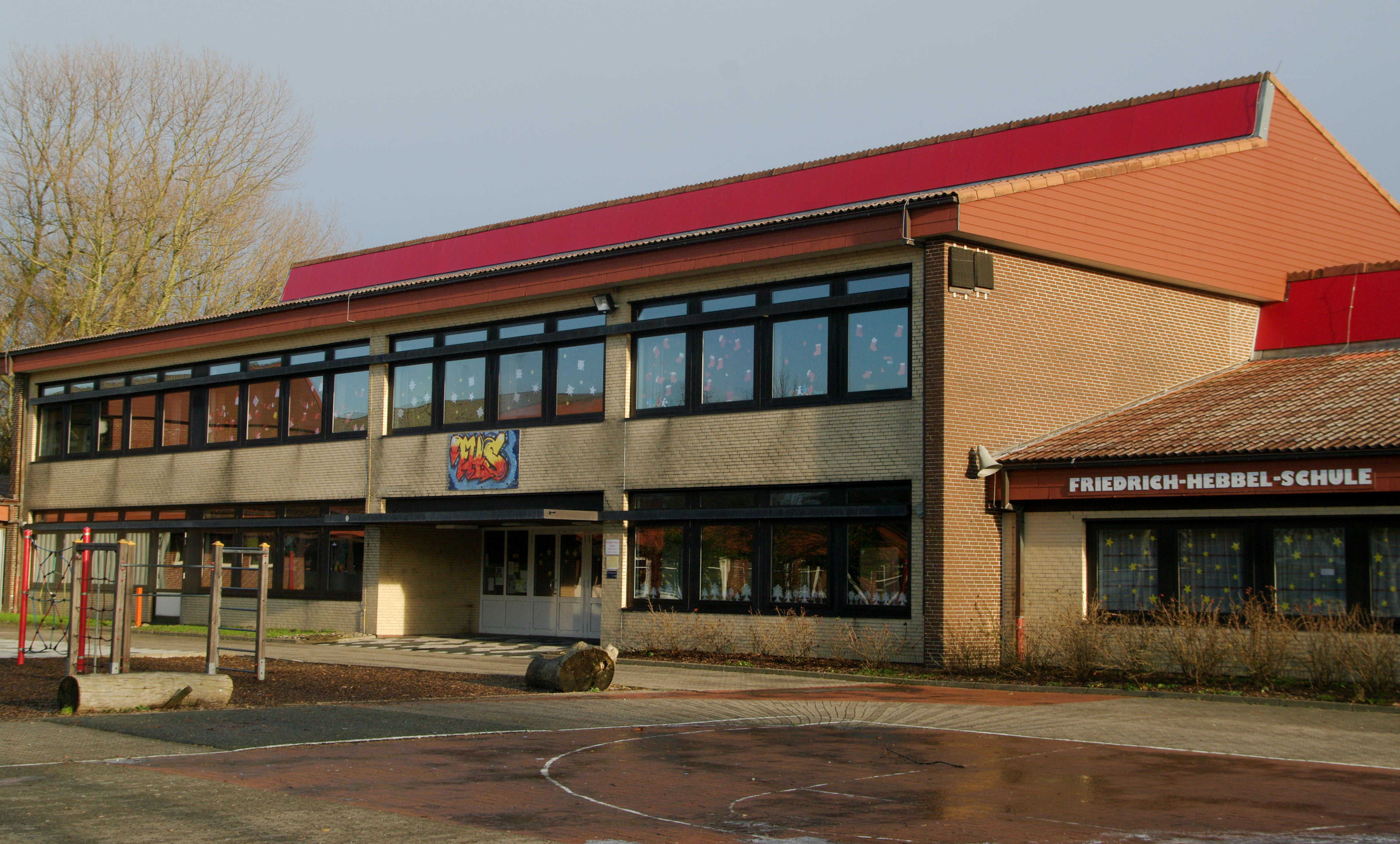 Dithmarschen in winter